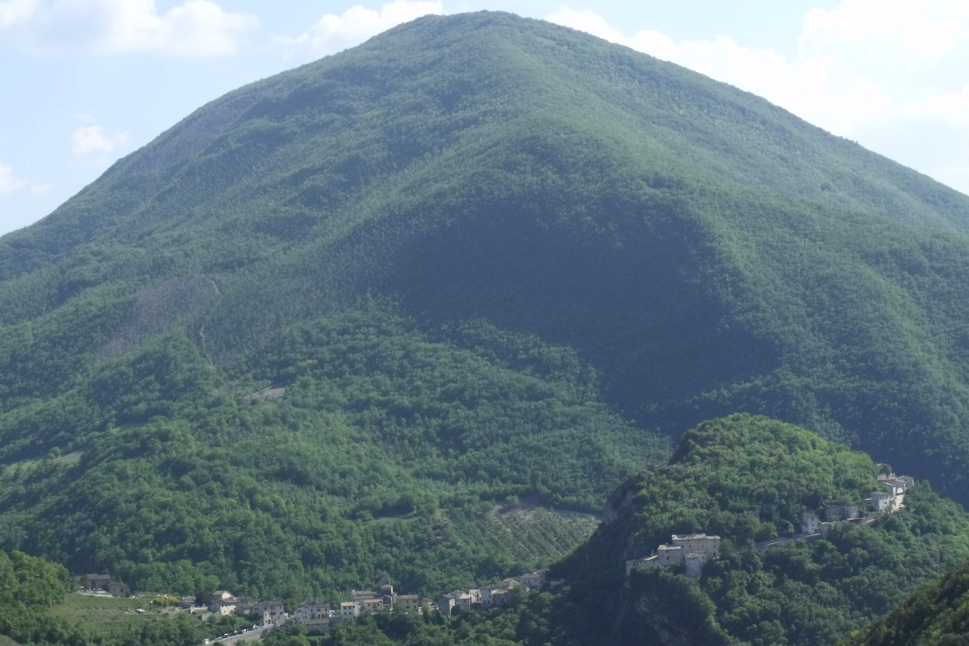 Ponte, hamlet of Cerreto di Spoleto, Province of Perugia, Umbria, Italy